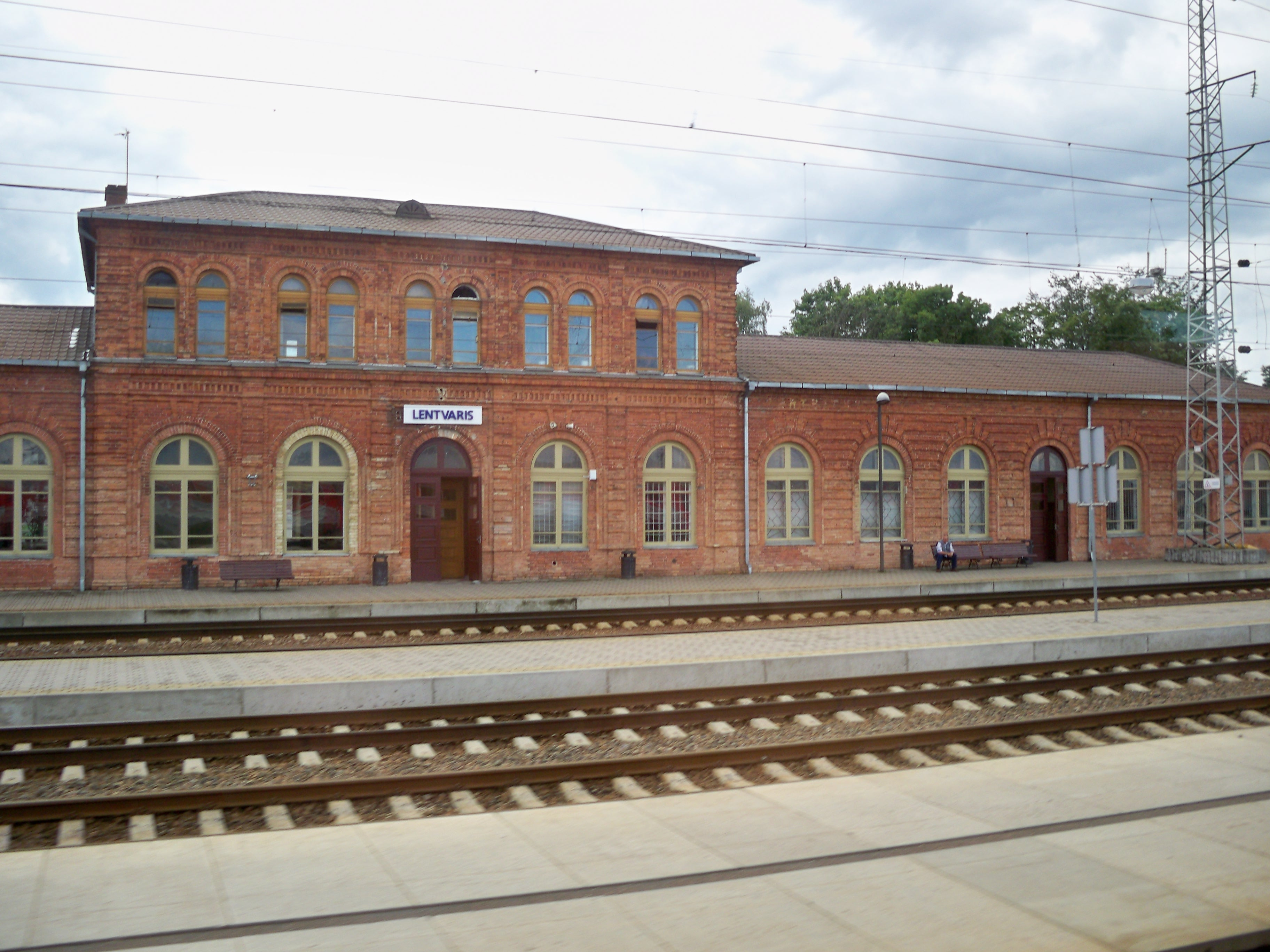 Lentvaris train station.